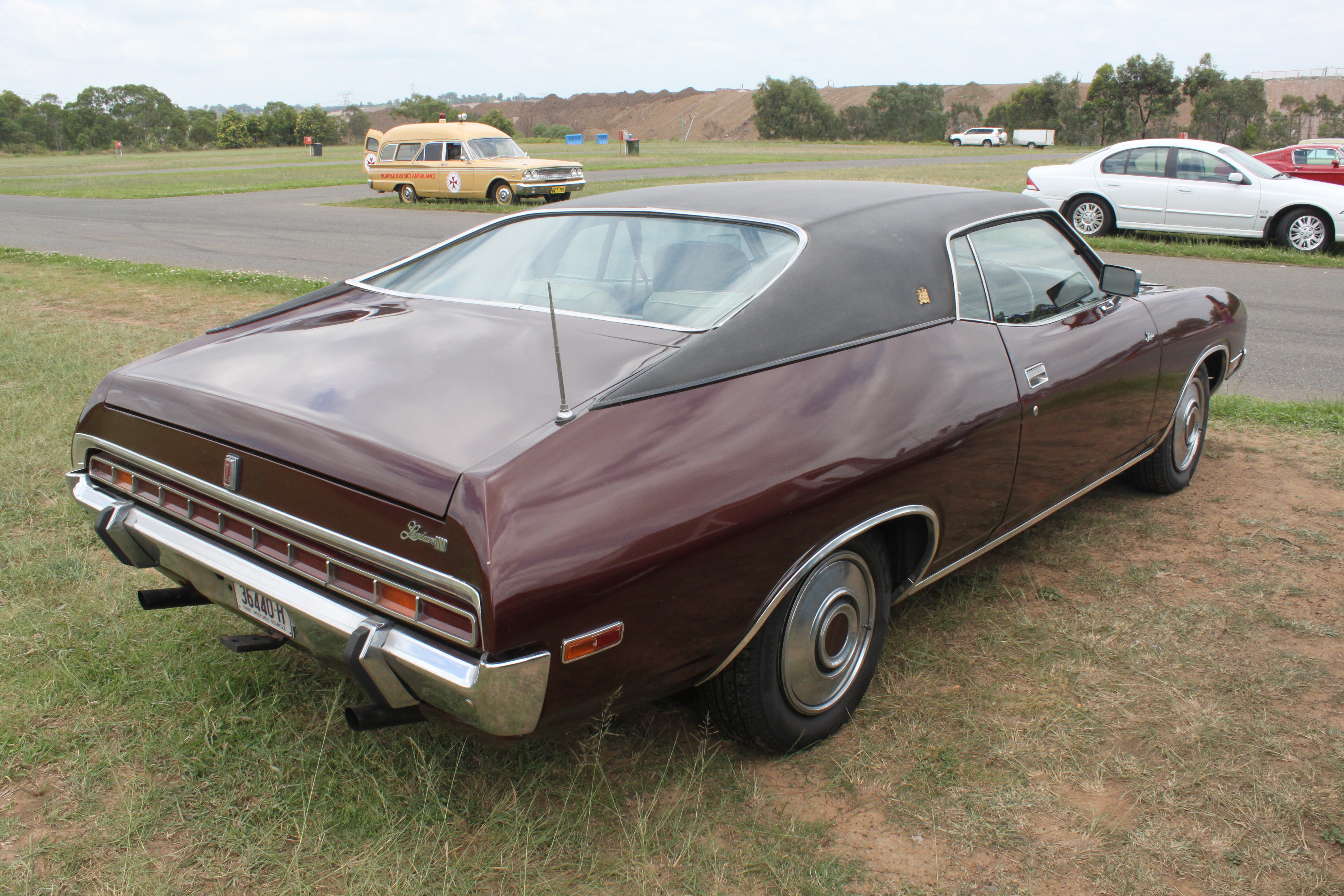 All Ford Day, Eastern Creek NSW, November 2015